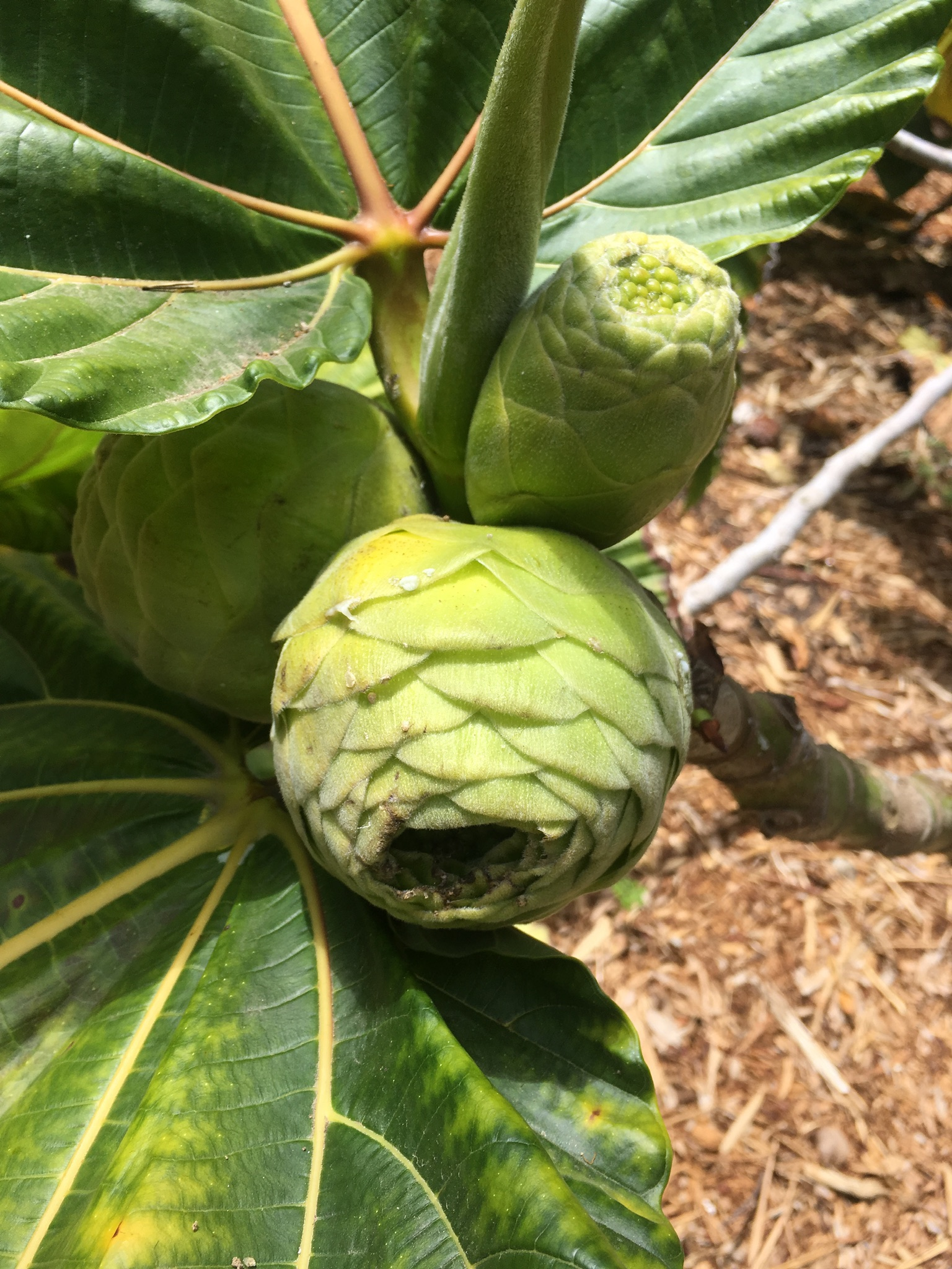 Image of the syconia of Ficus dammaropsis at the San Diego Botanical Gardens.